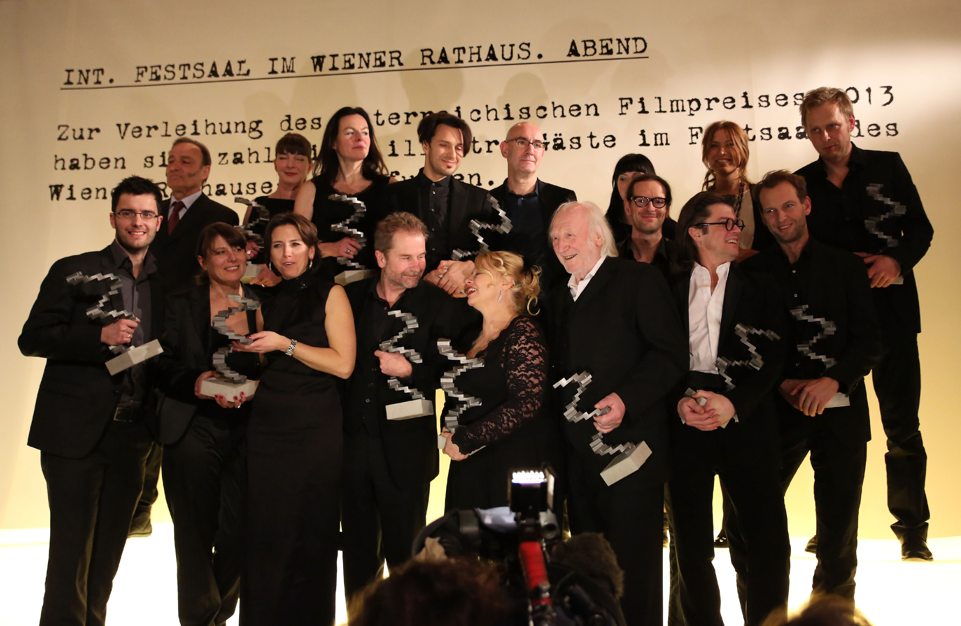 The winners of the Austrian Film Awards 2013 (Vienna).